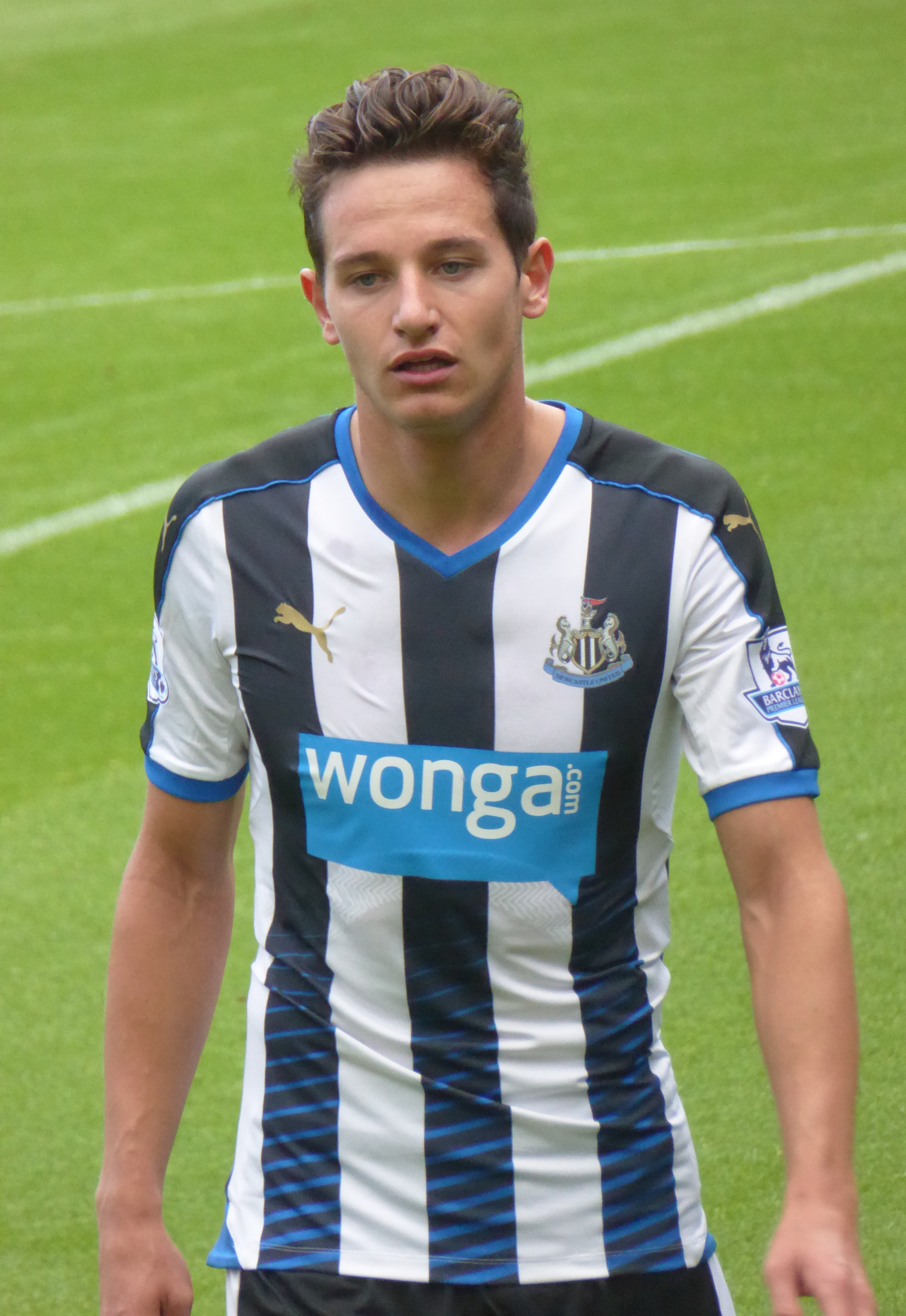 Newcastle United vs Arsenal (0-1), St James' Park, Newcastle upon Tyne, Tyne and Wear, England, August 2015